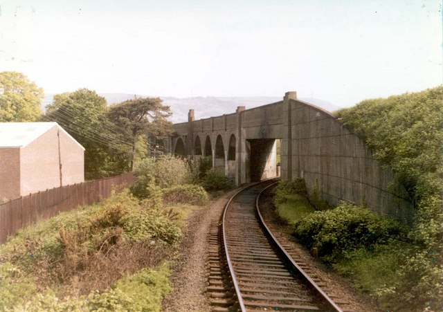 Bleach Green Viaduct Bleach Green Viaduct, carries the mainline to Londonderry over the Larne Line, and was constructed in 1931 & 1933 by the LMS/NCC railway company. This is a view of the viaduct on the Down line, was made from the cab of a approaching railcar from Belfast to Larne Harbour. On the left of the railway line, there was a short spur that led from Henderson's Mill and joined the Larne Line before the viaduct